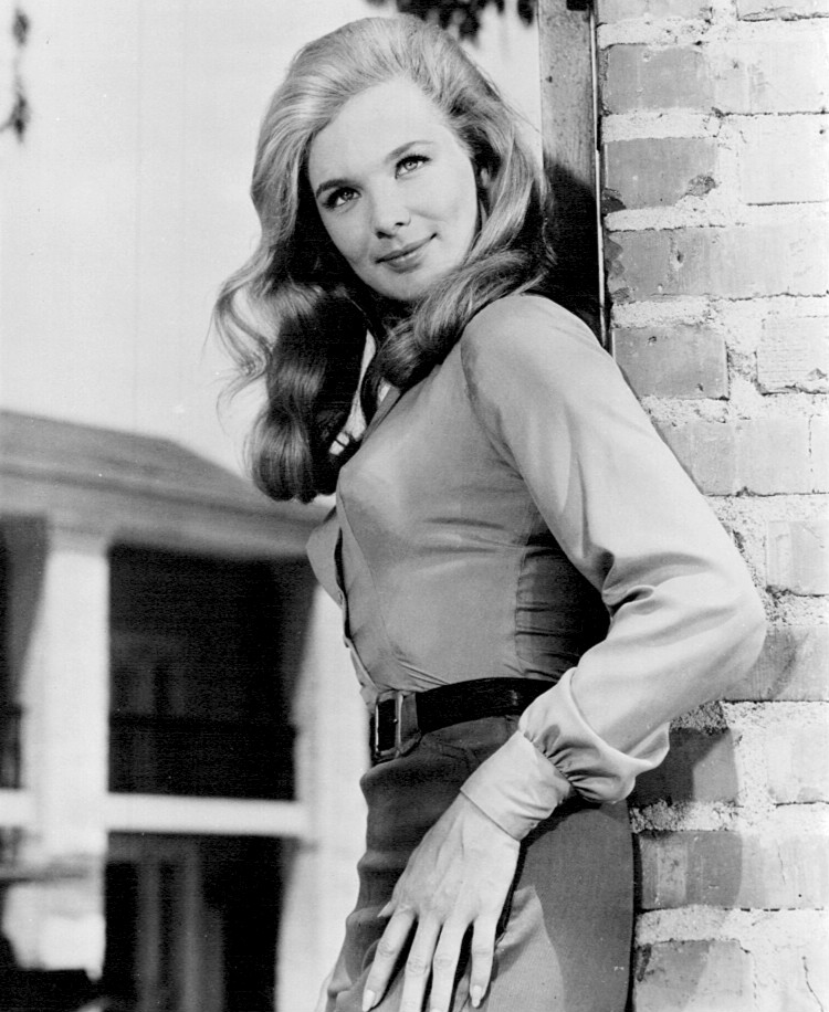 Photo of Linda Evans as Audra Barkley from the television program The Big Valley.